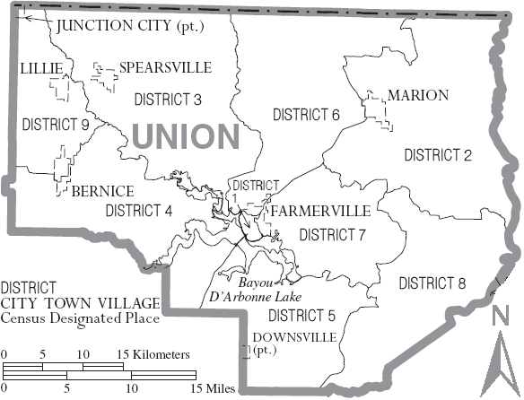 Map of Union Parish, Louisiana, United States with municipal and district boundaries